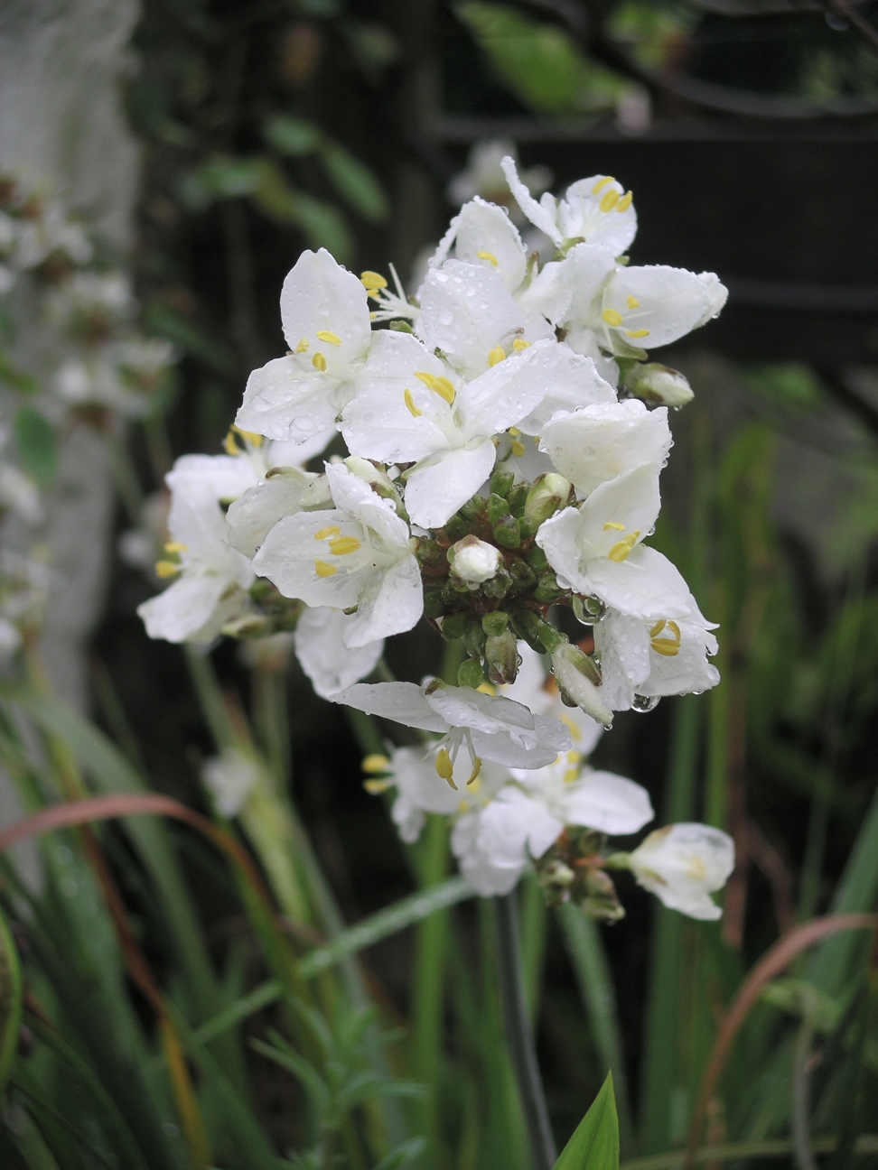 Libertia grandiflora growing in the UK